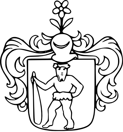 Cornelius Paus COA (1699) by Hans Krag